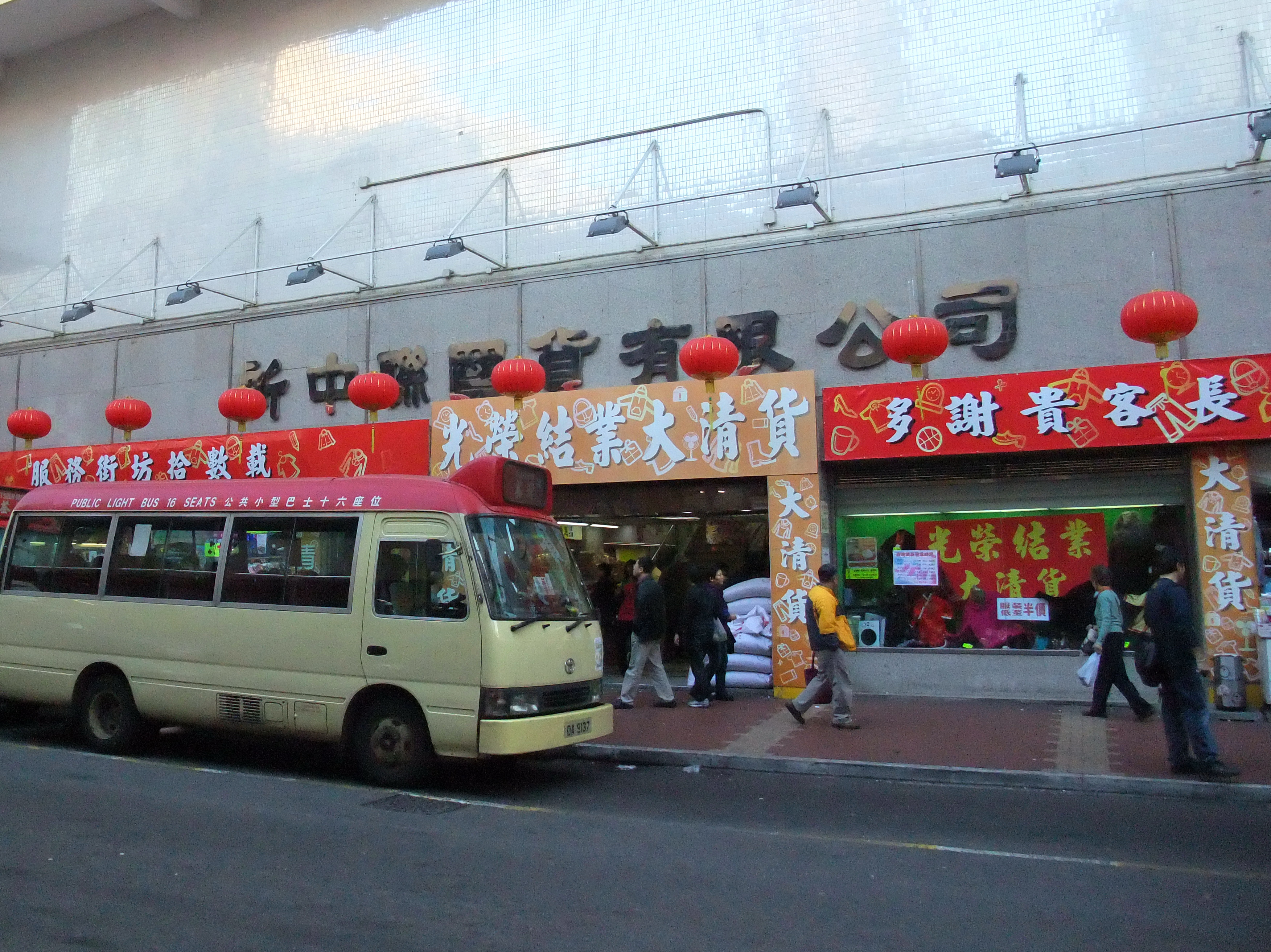 Sun Chung Luen Chinese Products Company Limited, Tsuen Wan, New Territories, Hong Kong. (permanently closed in March 2012)